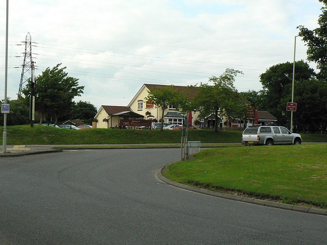 Roundabout, Kimbolton Road and Avon Drive, Bedford With The Pheasant pub in the background.